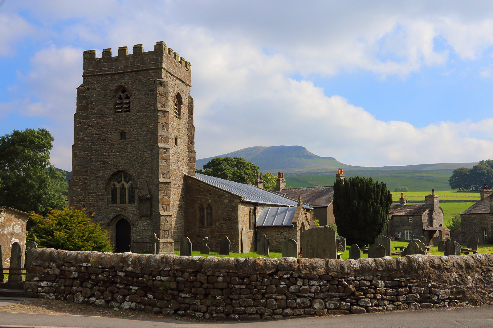 St Oswald's parish church, Horton in Ribblesdale, North Yorkshire, seen from the southwest